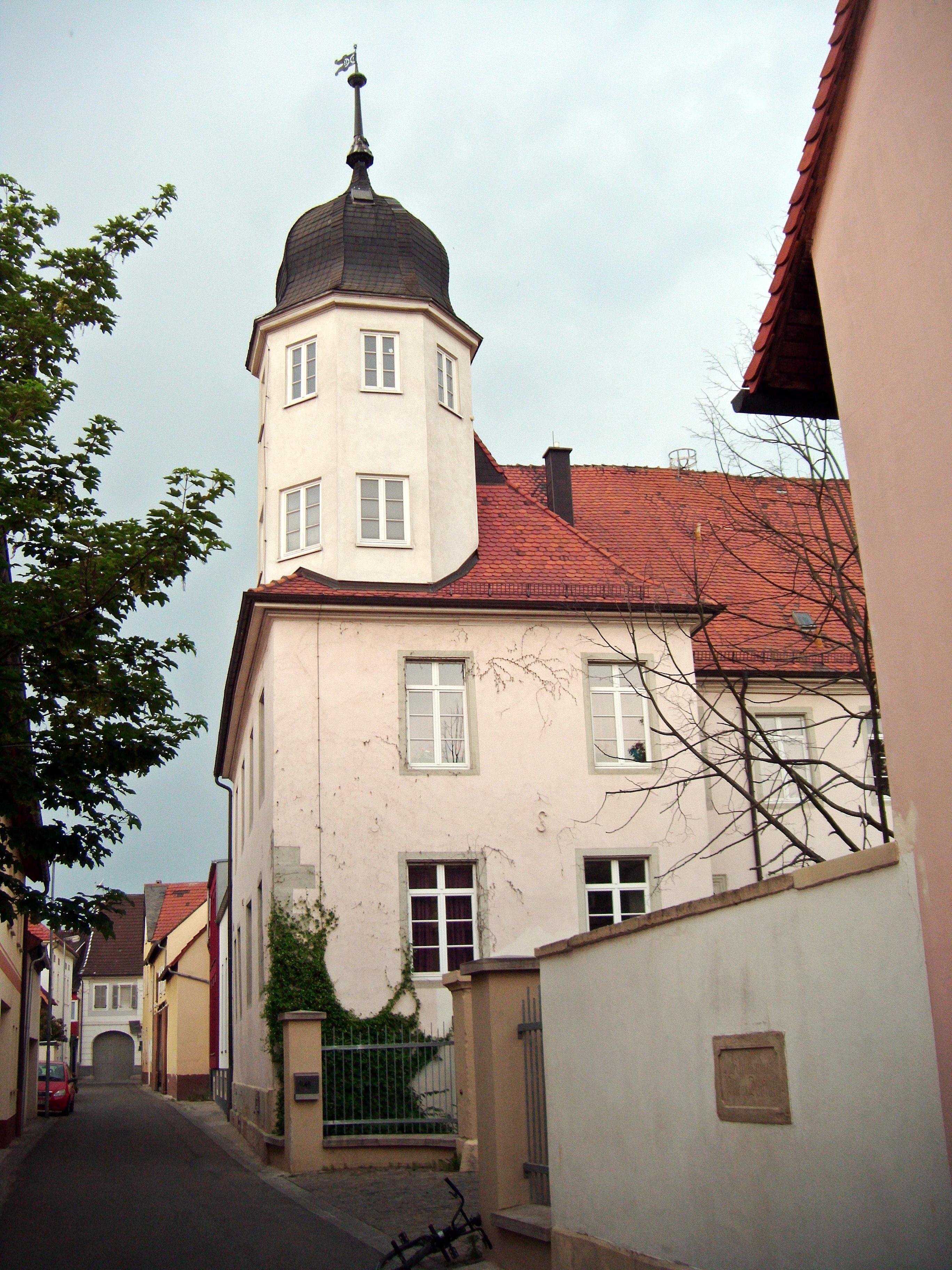 Meckenheimer Schloss, Junkergasse 1, Lambsheim